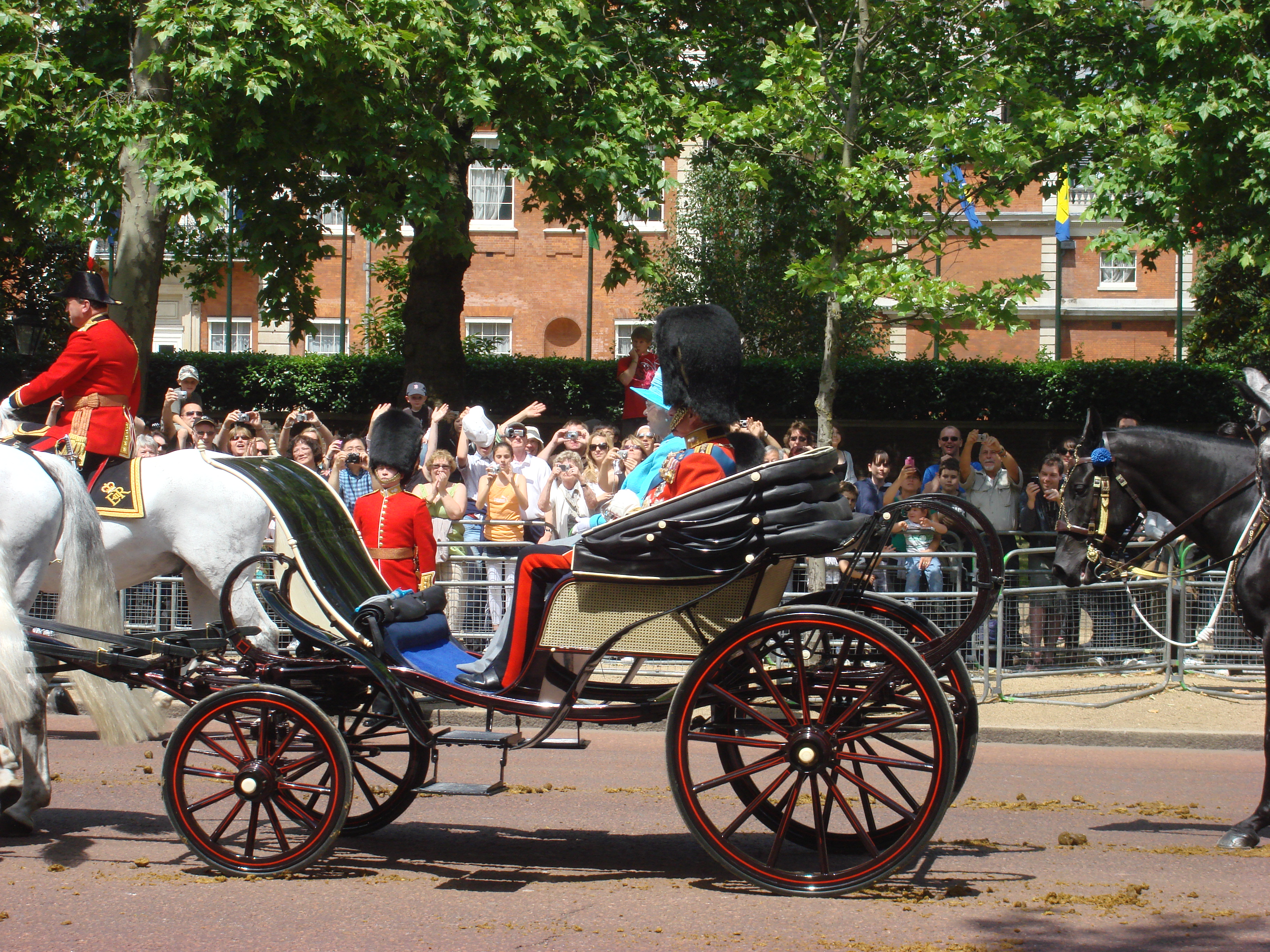 Trooping the Colour 2009